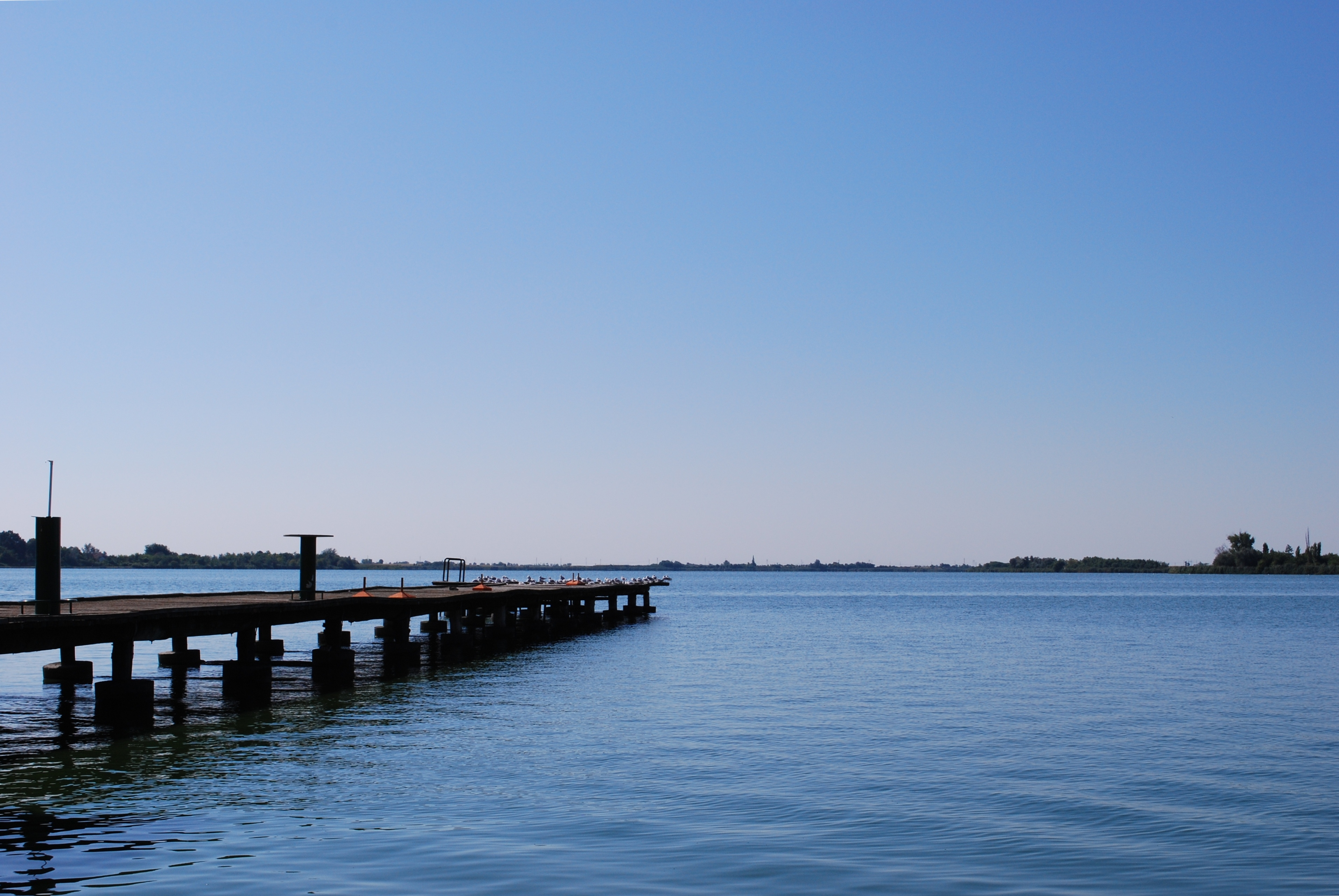 View of the Palic (Palics/Palić) lake, taken just west of the Ženski Štrand. Štrand's pier is in the view.